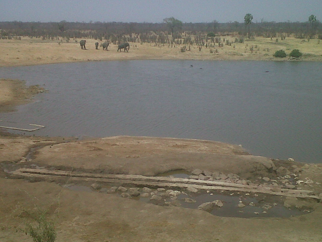 Elephant at Masuma Dam, Hwange National Park